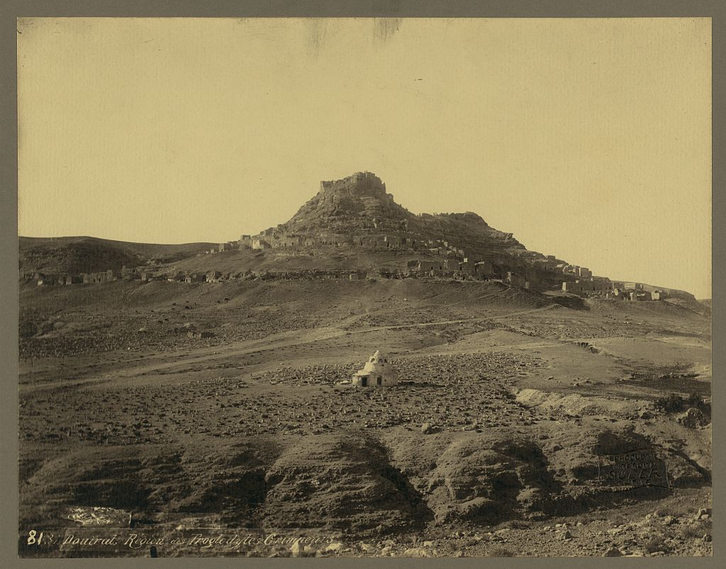 eneral view of mountain climbing troglodytes of Douirat, extreme southern Tunisia. In the foreground may be seen a view of the troglodyte cemetery with white tombs of the Marabour or holy men. Above is the human beehive where thousands of human beings are born and live and die. The mountain is literally honey-combed with large caves chiselled out of the rock. 1890-1900